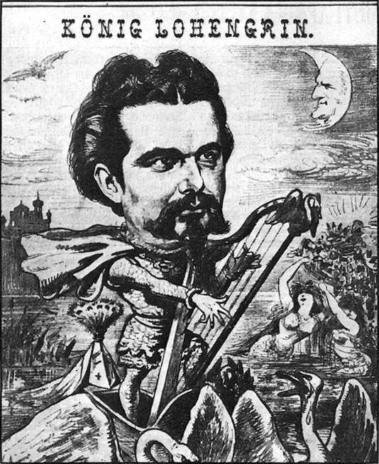 Ludwig II of Bavaria portrayed as "King Lohengrin" below a moon with the face of composer Richard Wagner. From "Der Floh" 30.01.1885